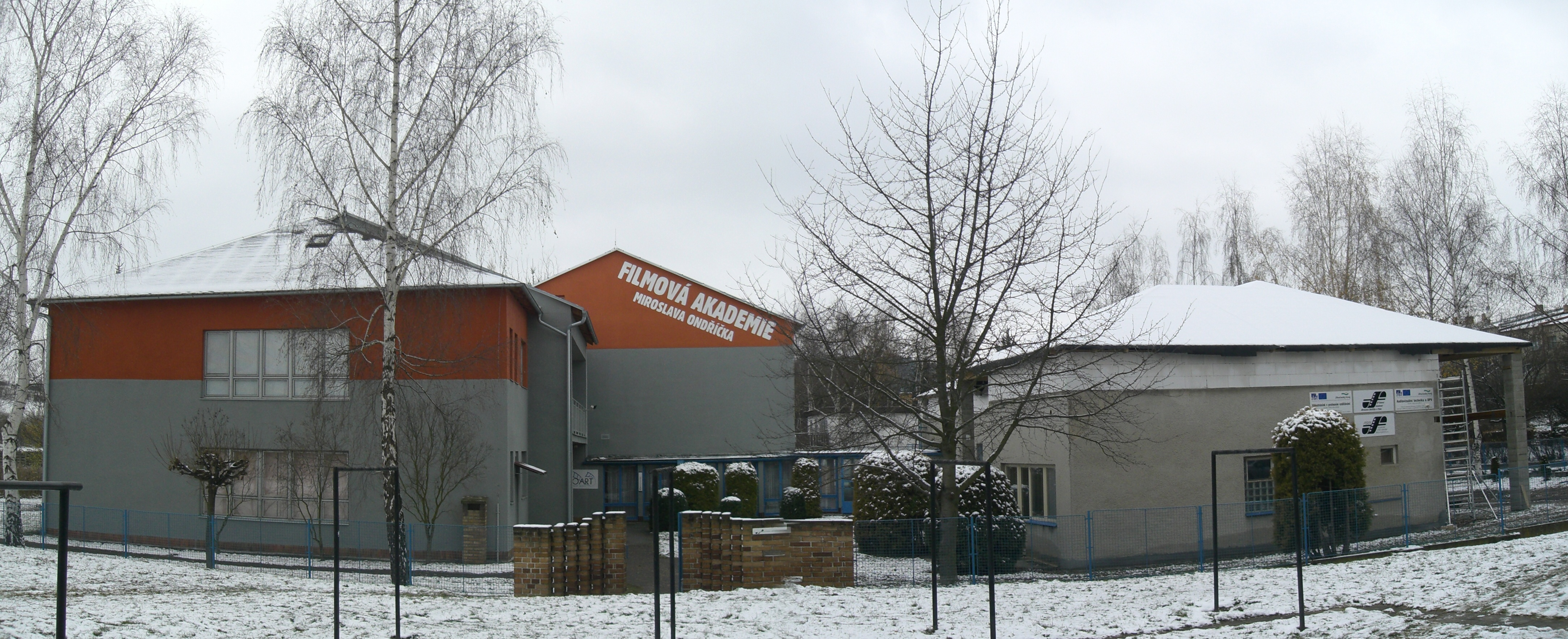 Film academy of Miroslav Ondříček in Písek, Czech Republic 49°18′1.577″N 14°8′37.931″E / 49.30043806°N 14.14386972°E